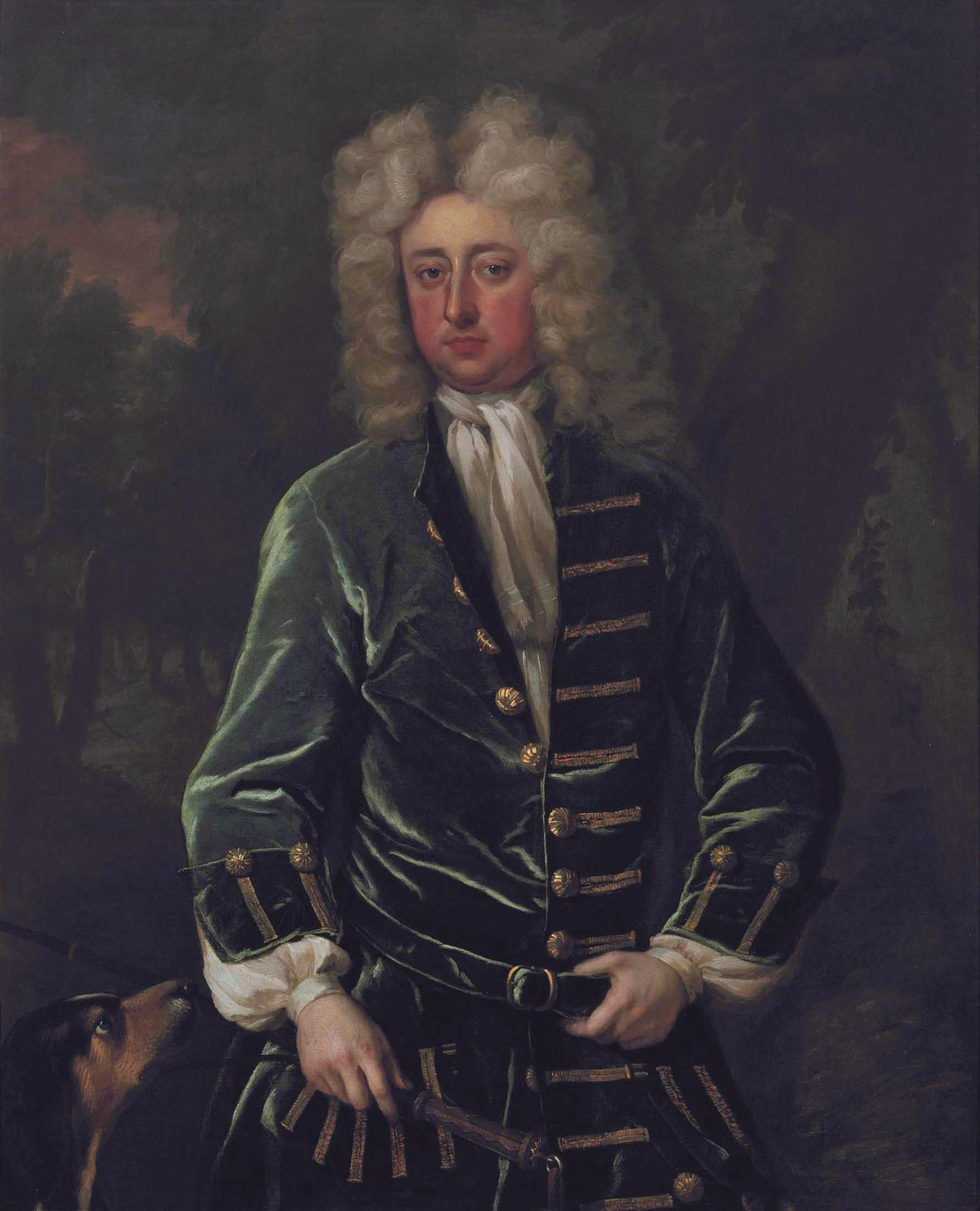 Sir Charles Shuckburgh, 2nd Baronet (November 1659–2 September 1705) Master of the Staghounds to Queen Anne oil on canvas 127.5 x 104.1 cm 17th/18th century